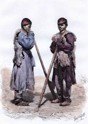 Svan people. Original wood engraving drawn by Pranishnikoff, engraved by Hildibrand. Hand watercolored. 1881